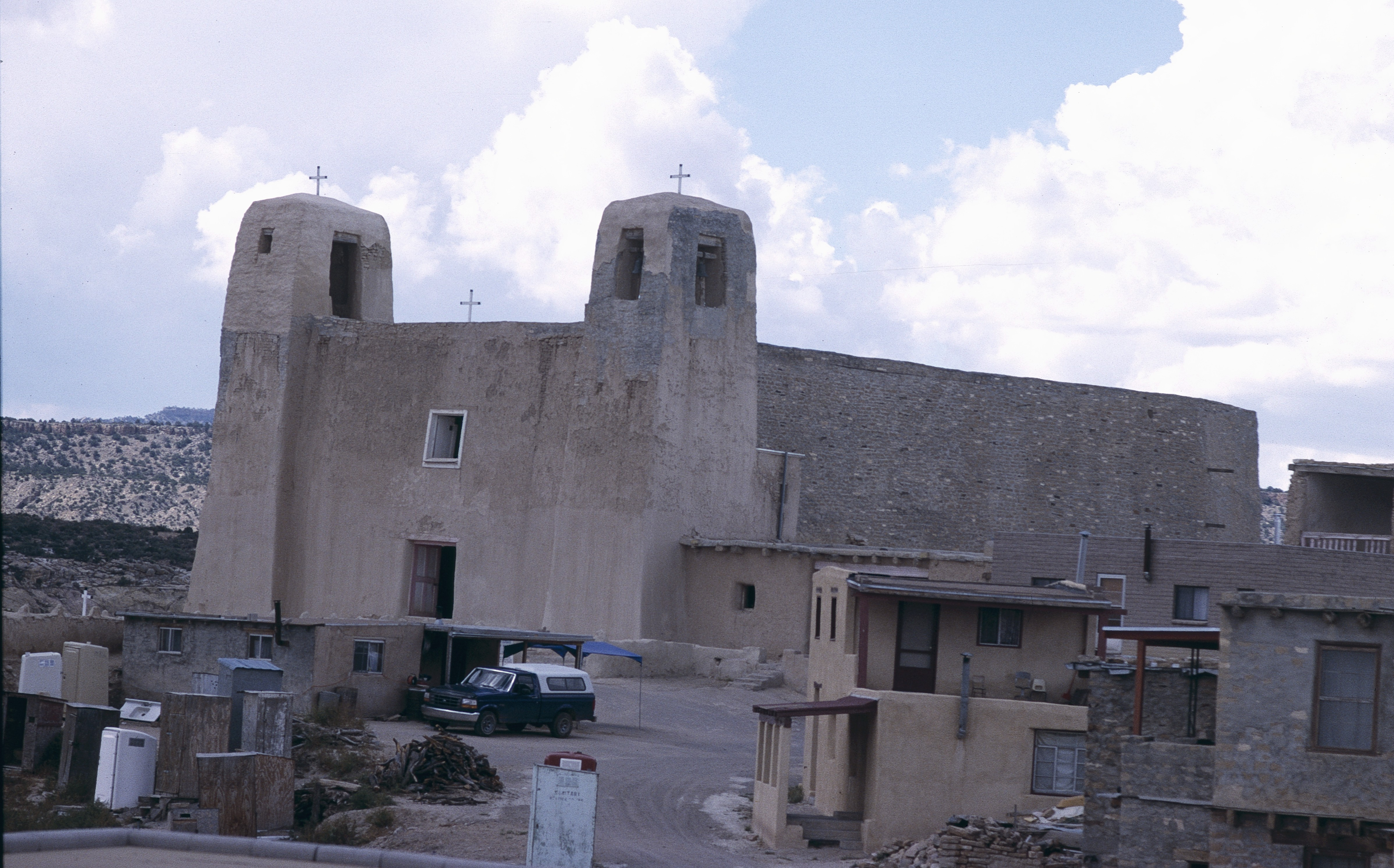 Acoma Pueblo, NM: church